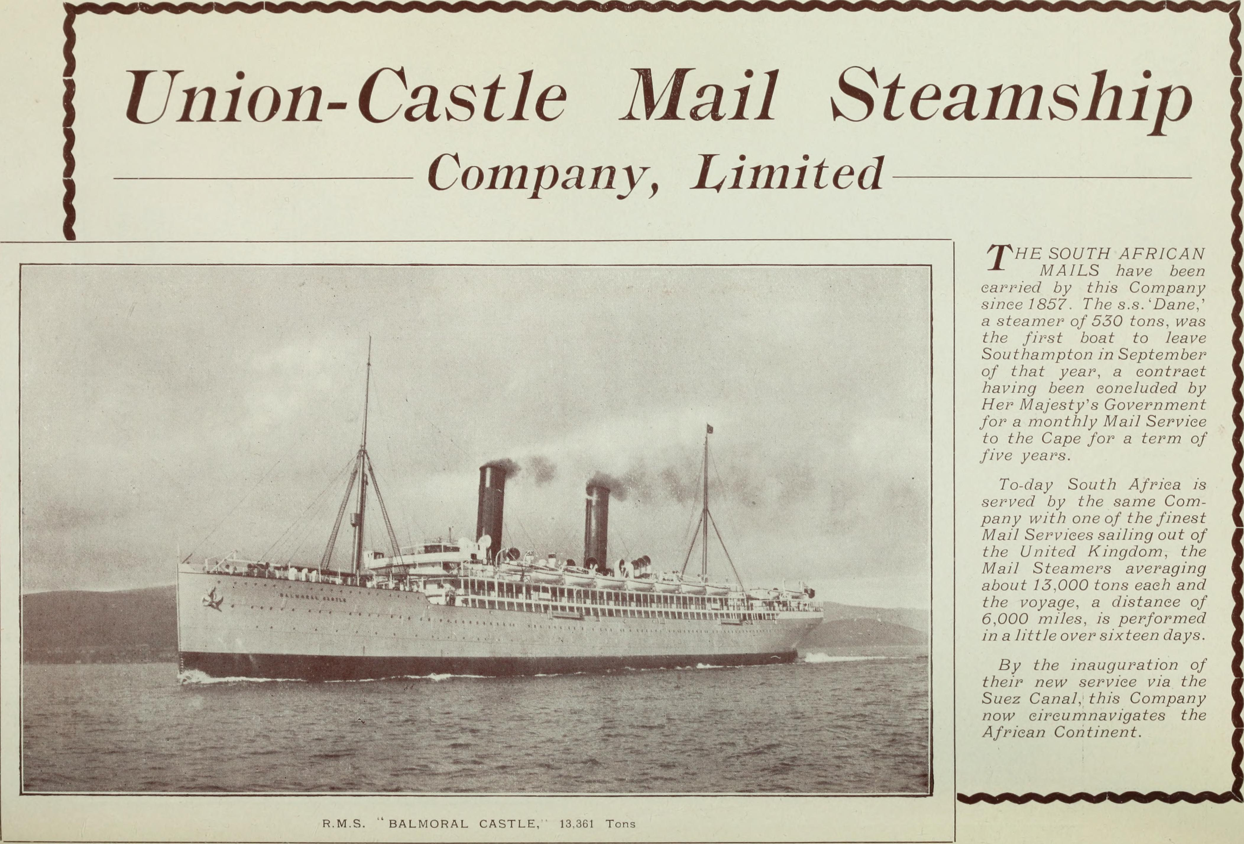 Title: Natal province : descriptive guide and official hand-book Year: 1911 (1910s) Authors: Tatlow, A.H South African Railways. Publicity Dept Subjects: Railroads Publisher: Durban, Natal : South African Railways Printing Works Text Appearing Before Image: New Steamer - 8,100 General - 8,100 Prinzessin - - 6,300 Admiral - 6,300 Feldmarsehall - 6,300 Prinzregent - 6,300 Burgermeister - 5,900 Kronprinz - - 5,700 Koenig - 4,900 Kommodore - 6,000 Usambara - 6,000Emir - Muansa Rufidji Khalif - Markgraf Praesident Kanzler Sultan Kaiser Somali Kadett Adjutant B.R.T. 5,8005,8005,1003,8003,4003,0002,9002,8002.600250250 B.R.T. Gertrud Woermann 6500Adolf Woermann 6300 (Woermann Linie) RhenaniaWindhuk 6,3006,400 (Hamburg-American Line) - 5,800 All Mail Steamers are Twin-screw, and are fittedThe S.S. General has been fitted with Anti-Ro has proved a great success. These fine Mail Steamers offer the opportunity Continent, either via East Coast or West Coast, and be combined for a trip round Africa. For fuller particulars apply to— Answald - 5,400 Irmgard - - 2,500 (Hamburg-Bremer-Afriean Line) with Wireless Telegraphy,lling Tanks, which invention to proceed to England andvery interesting routes can DURBAN and DELAGOA BAY, op AGENTS A dvertisemen ts Text Appearing After Image: Advert Natal Navigation Collieriesand Estate Company (Limitctl) Produce the wll known Standard Steam Coal ol Natal. Low in no clinkering, and highesl in efficienoy. Largest shippers of coal for hunking weekly Union Castle Royal Mail Steamers, Durban to Southampton,and H.M. Warships (Durham. Used exclusively for running Natal dailyCorridor Mail Trains. Largesl seller:, of hunker coal at Port Natal. Exporters to India, Ceylon, Java, Sumutra, Straits Settlements, M.gascar, and Mauritu Supply also Washed Nut:;, Washed Peas, and Washed Smalls to ElectricLight Works, Smitheries, and Foundries. VISIT OF HIS ROYAL HIGHNESS THE DUKE OF CONNAUCHT TO NATAL, OCTOBER, 1910 % •* ****»